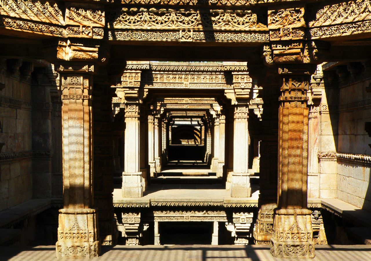 Adalaj Stepwell, near Gandhinagar, Gujarat here.